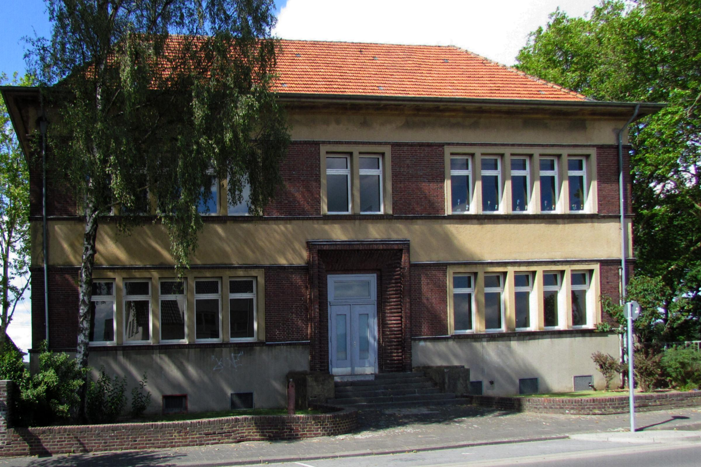 This is a photograph of an architectural monument. 054